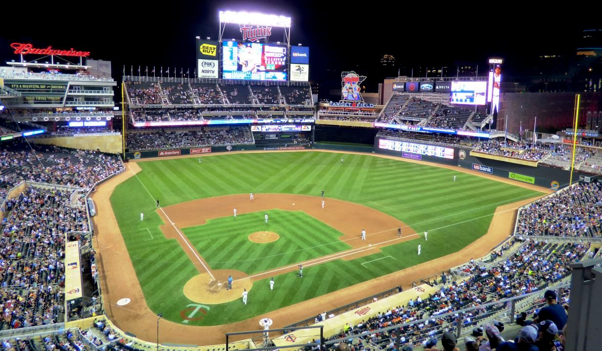 Target Field from the top level, August 24, 2016